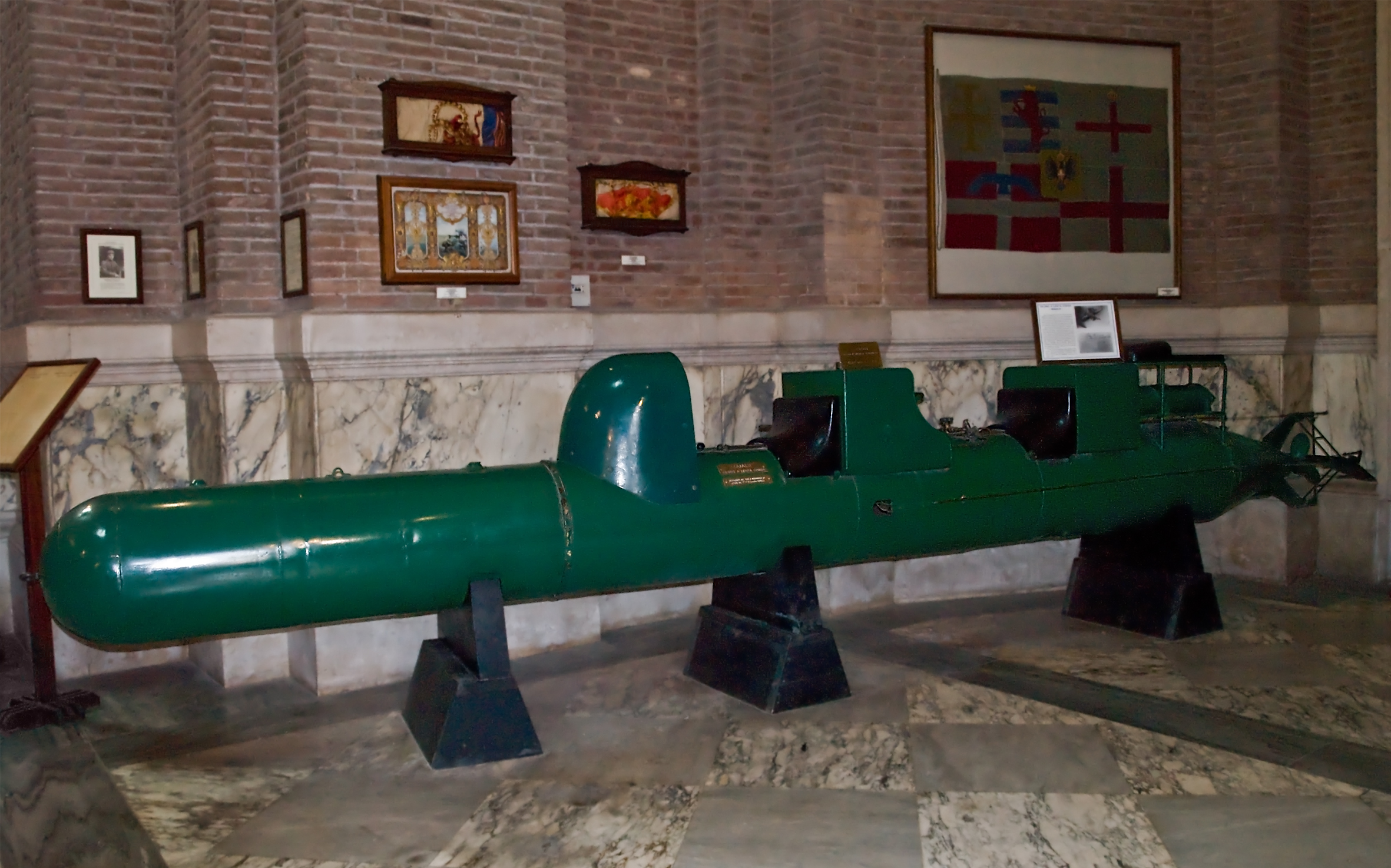 A Siluro a lenta corsa (Italian for Low speed torpedo), also known as maiale (“pig”), Italian manned torpedo. The pictured one is exposed at the was an Italian human torpedo — Museo Sacrario delle Bandiere delle Forze Armate, inside the monument to Vittorio Emanuele II, Rome, Italy.